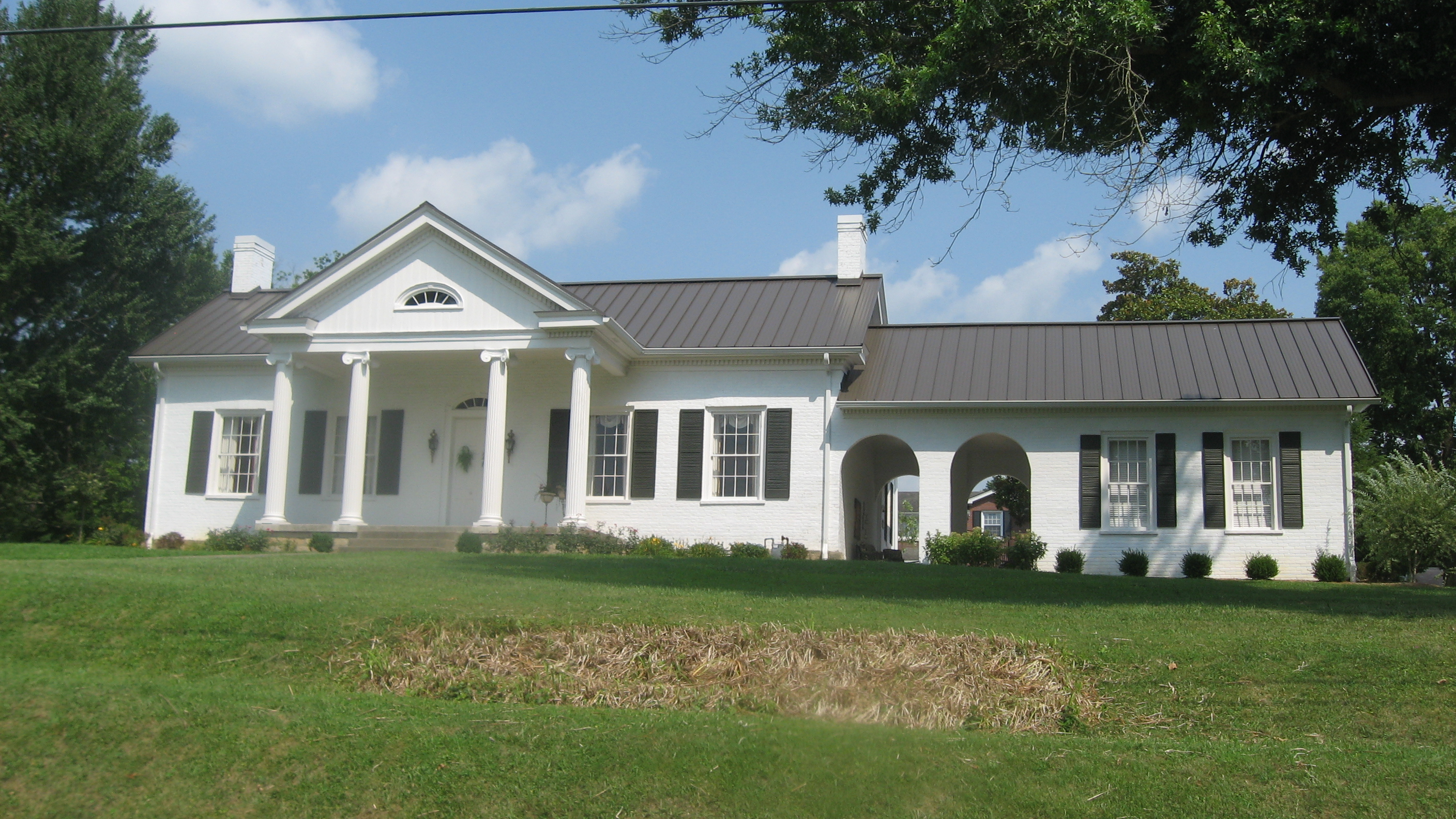 Front of the William Hobson House, located at 102 S. Depot Street in Greensburg, Kentucky, United States. Built in 1823, it is listed on the National Register of Historic Places.